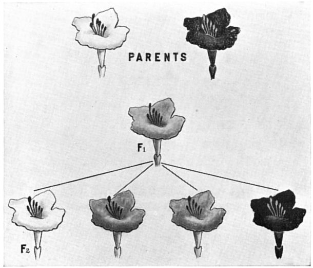 Fig. 13. Diagram illustrating a cross between a red (dark) and a white variety of four o'clock (Mirabilis jalapa).